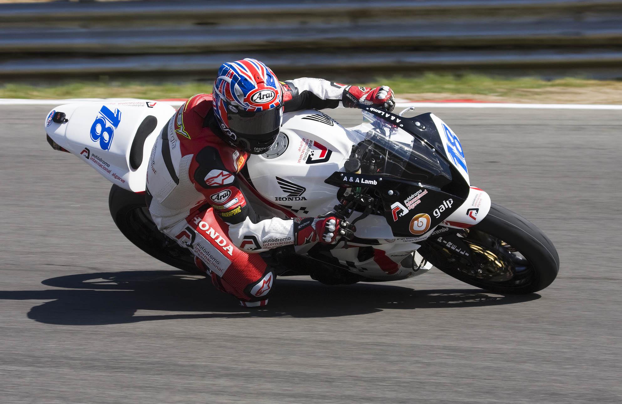 Craig Jones. World Superbikes meeting at Brands Hatch 1st August 2008. Supersport Practice.